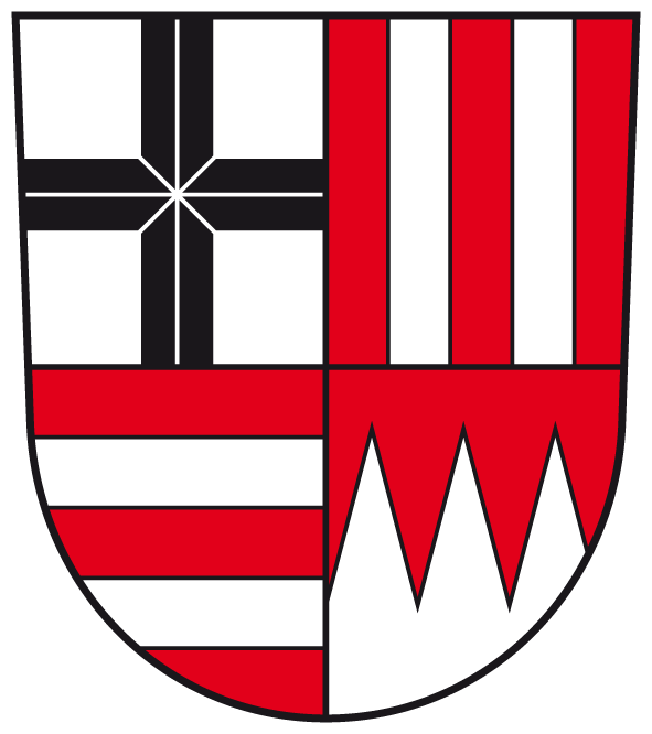 Coat of Arms of Elfershausen